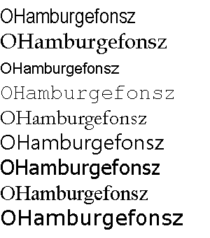 The word „OHamburgefonsz“ in various fonts: Arial, Book Antiqua, Utsaah, Courier New, Garamond, Segoe UI, Tahoma, Times New Roman, Verdana.